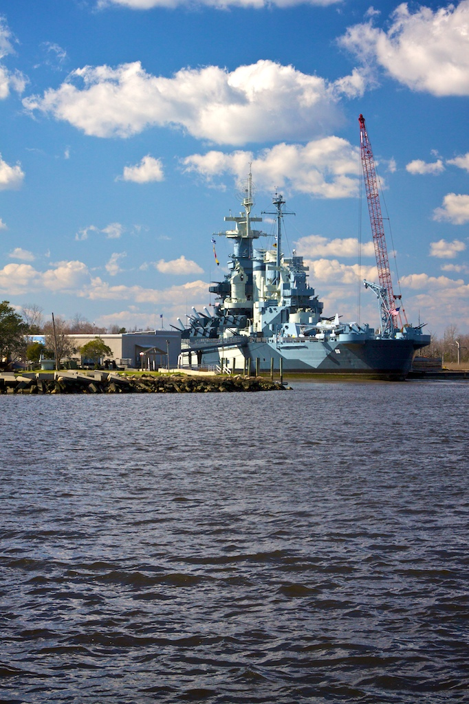 photograph taken from the Wilmington Riverwalk of the battleship USS North Carolina.